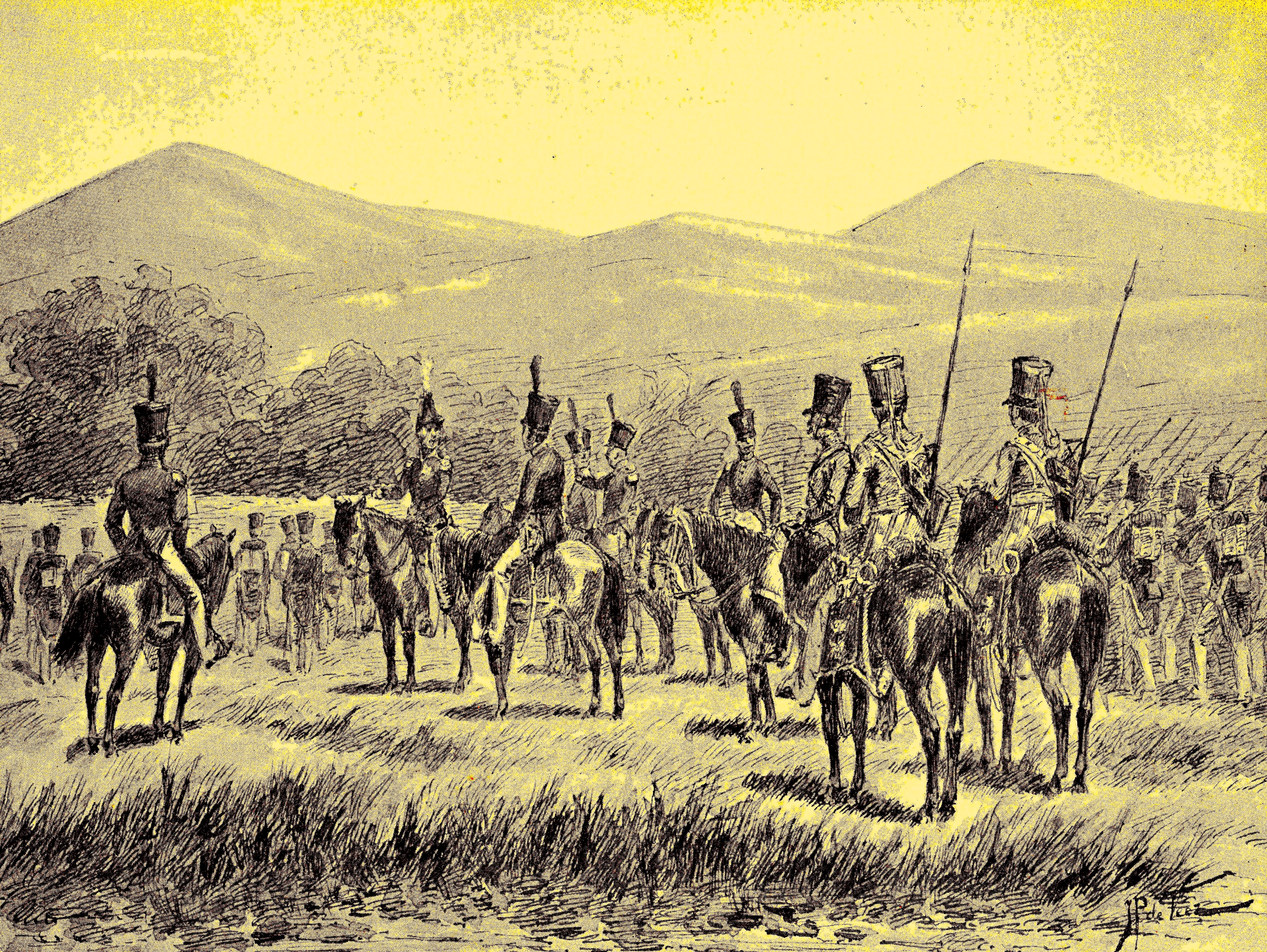 De staf der expeditie voor Boni